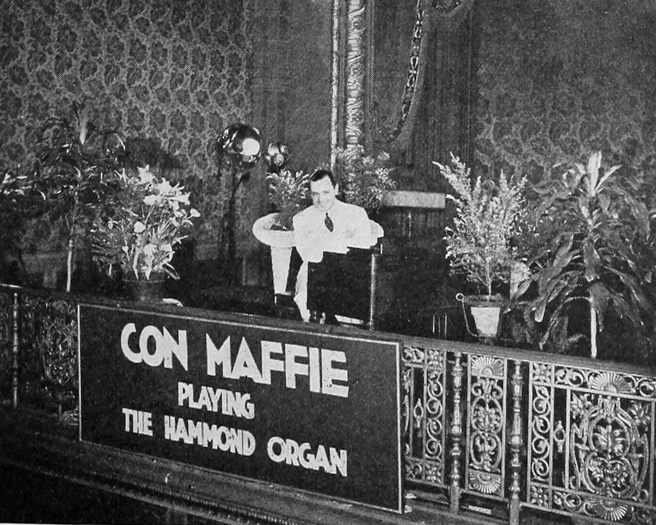 Photo of Con Maffie playing the organ at the Loew's State Theater in Syracuse, New York in 1937. Maffie was in the theater mezzanine playing the songs from the film Maytime as a promotion for the motion picture.